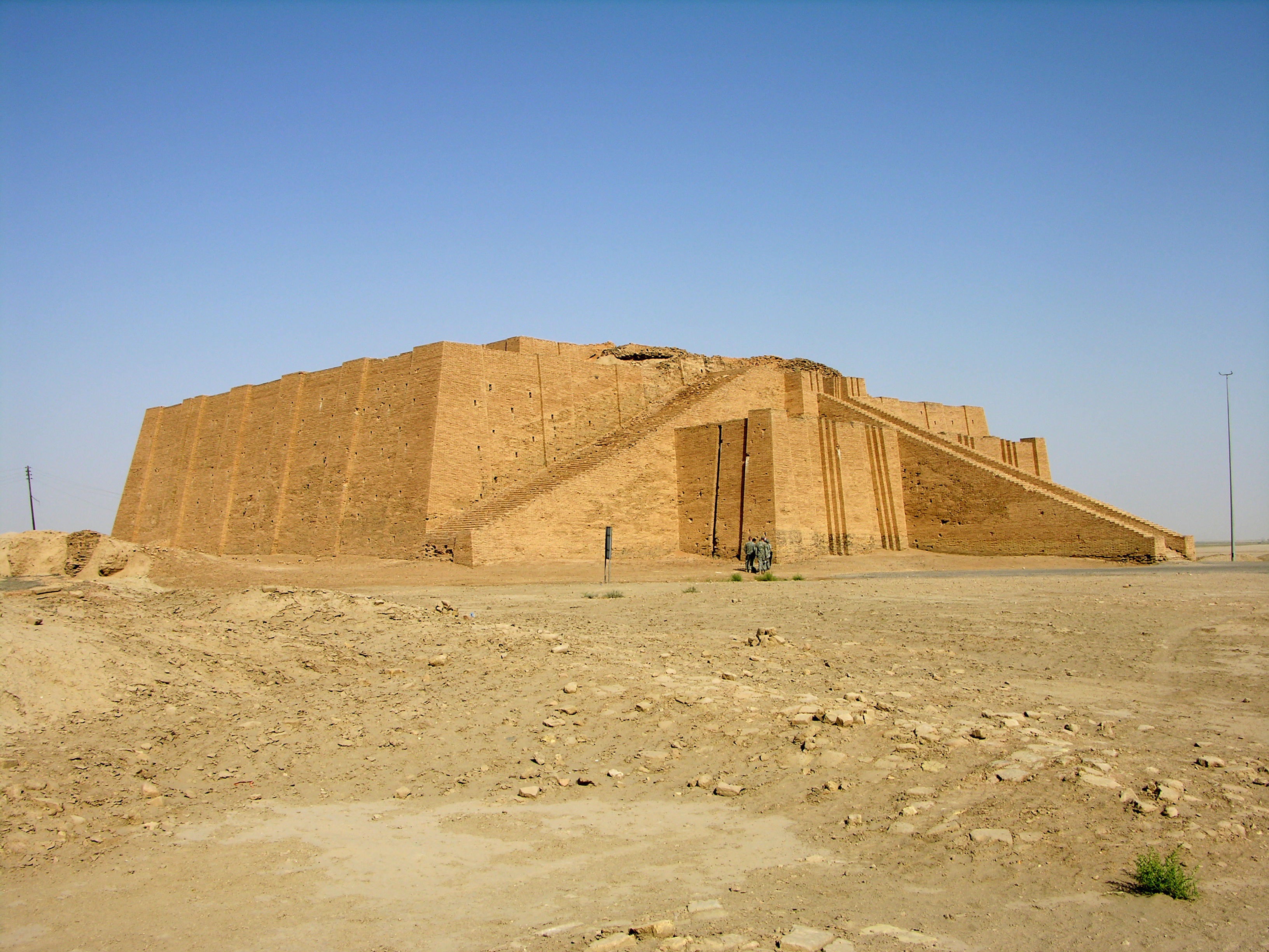 Far away pic of the Ziggurat of Ur.